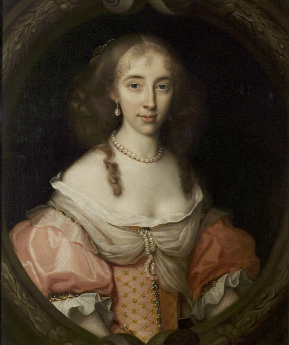 Wright, John Michael; Magdalen Aston, Lady Burdett; Nottingham City Museums and Galleries